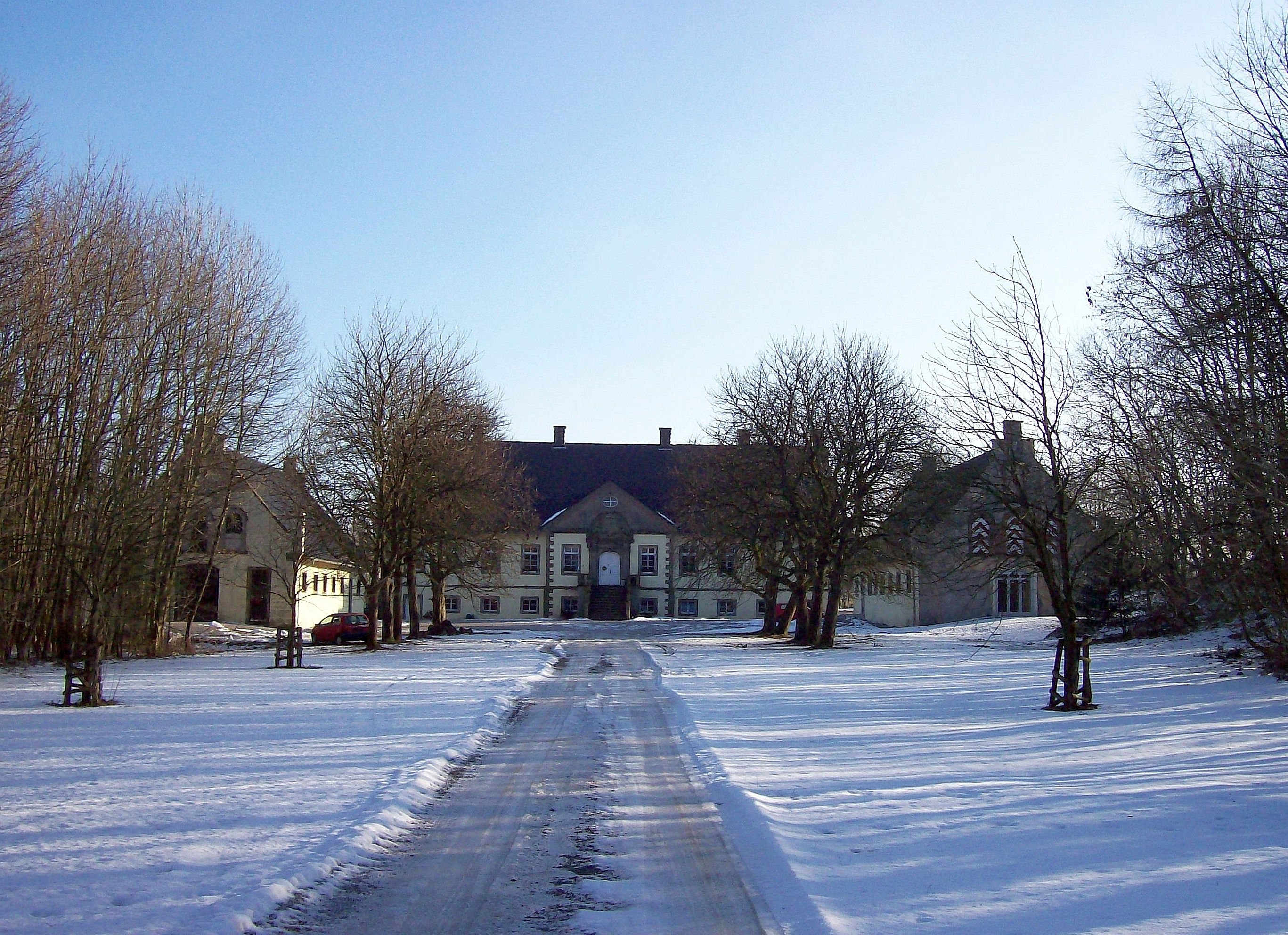 Haus Almerfeld, Brilon (Germany)